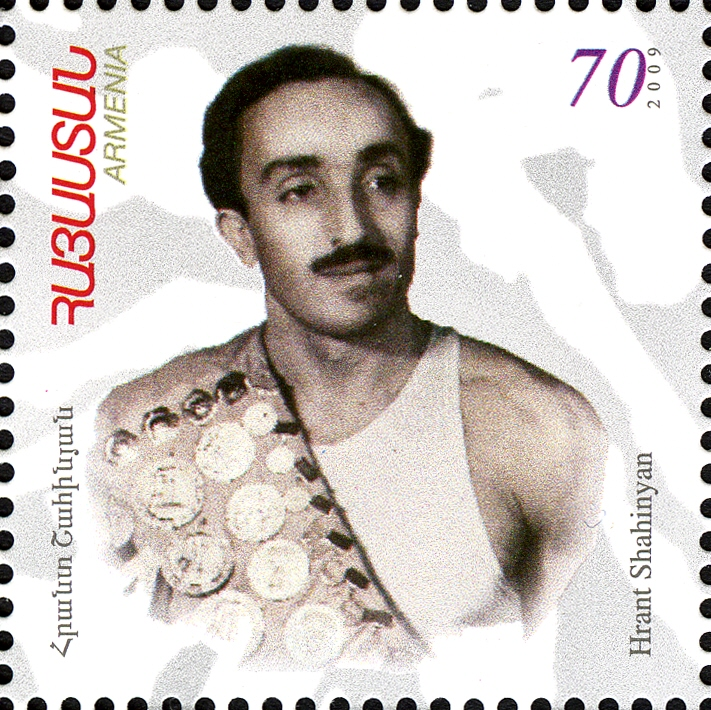 Stamp of Armenia (2009), Hrant Shahinyan.